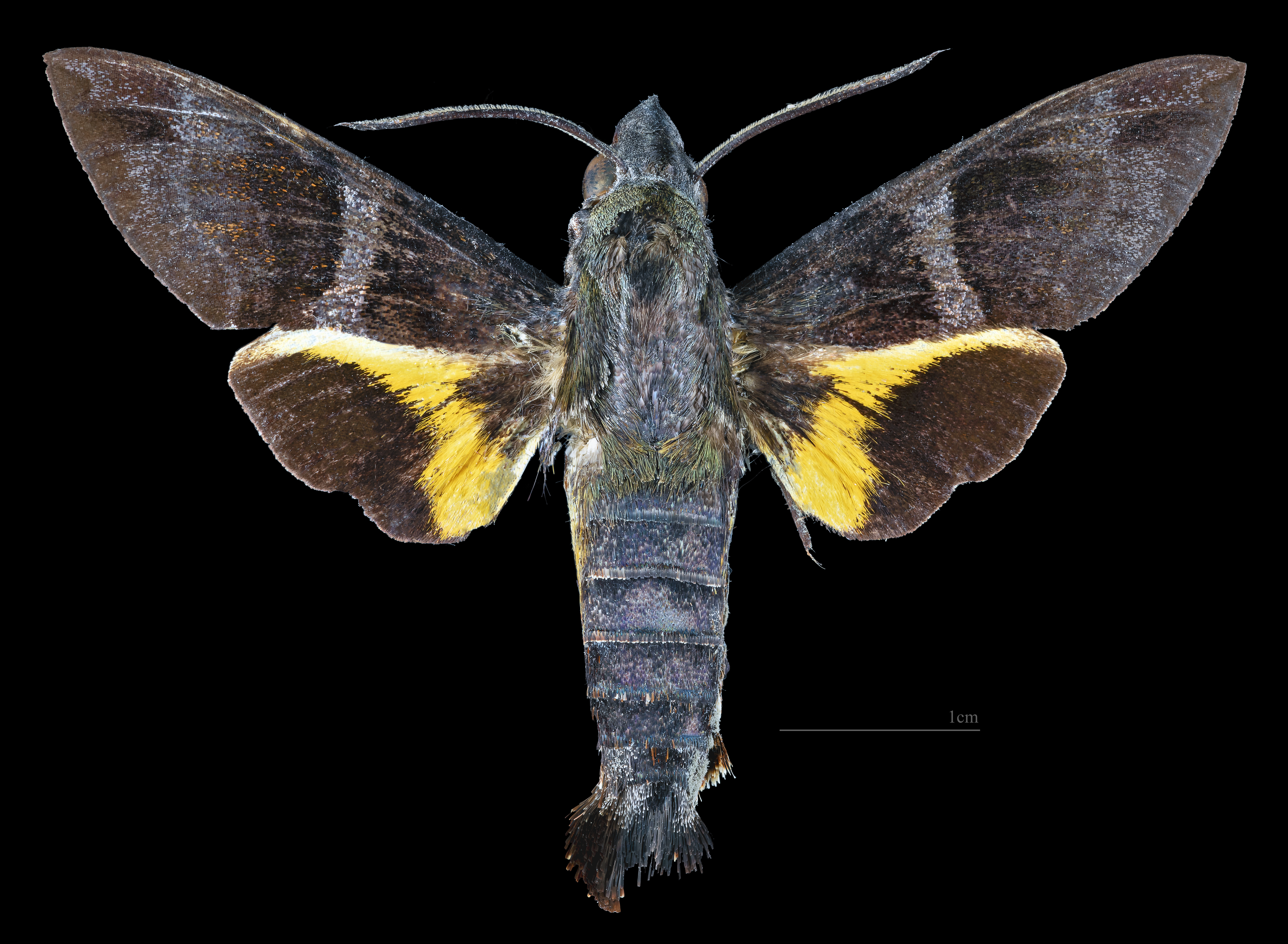 Macroglossum kitchingi - Dorsal side Collection of the Mathematician Laurent Schwartz